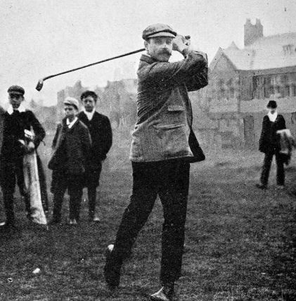 Scottish amateur golfer James Robb (1878-1949) playing in the 1906 British Amateur Championship which he won. He also finished T13 in the 1895 Open Championship.